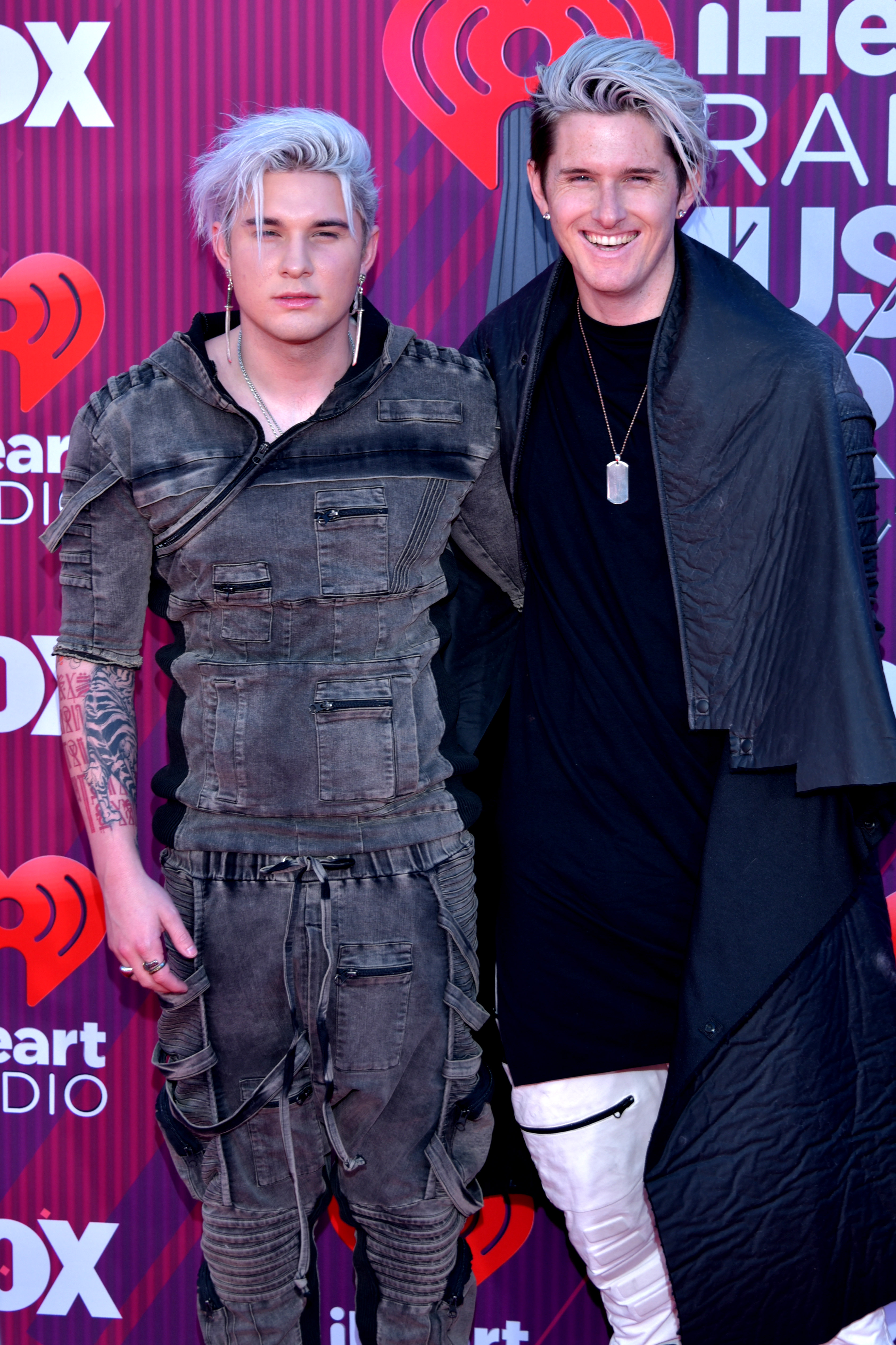 Kyle Trewartha and Michael Trewartha of Grey at the 2019 iHeartRadio Music Awards in Los Angeles California on March 14, 2019 - Photo by Glenn Francis of